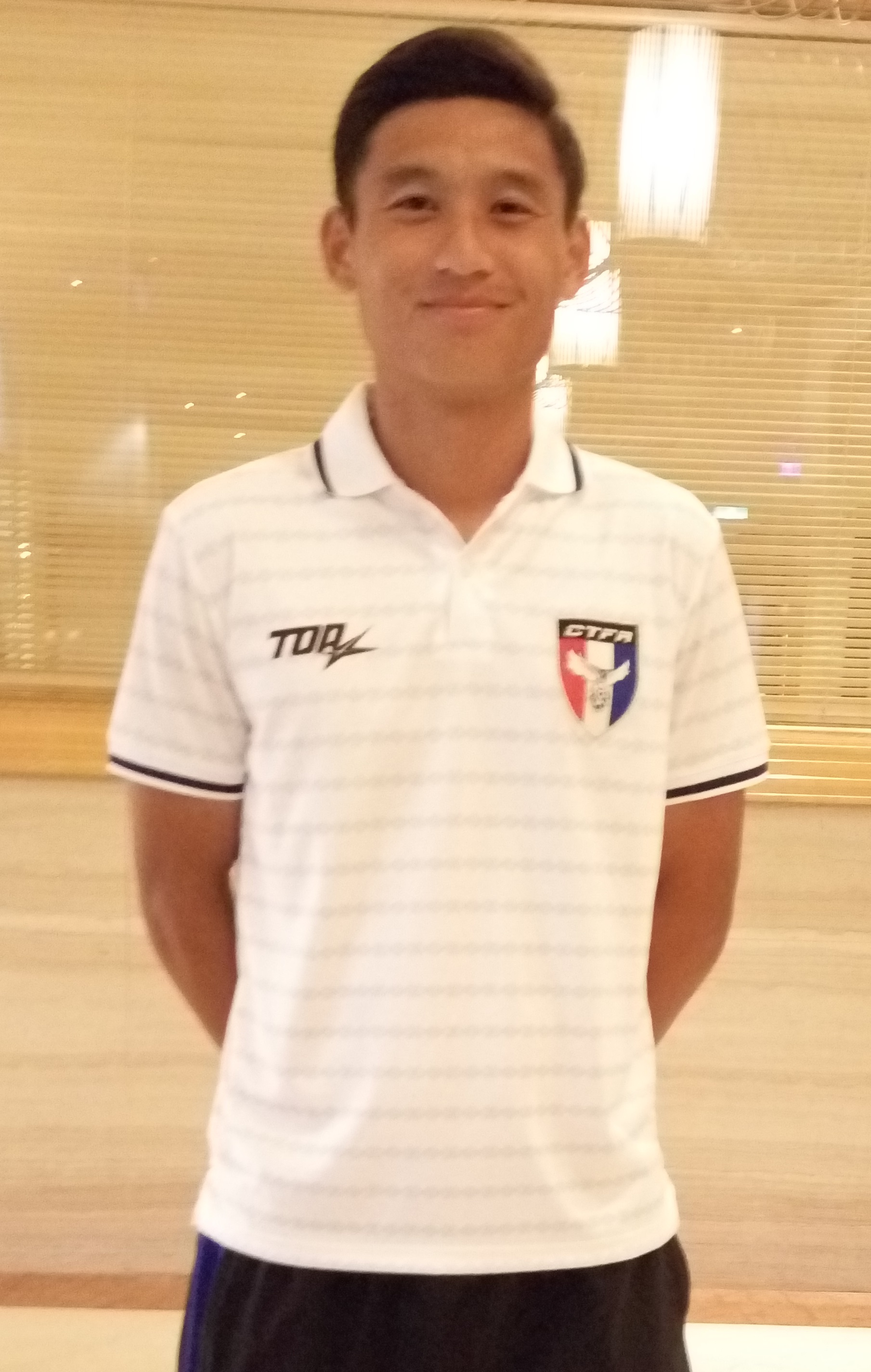 Taiwan Football Player Yen Ho-Shen